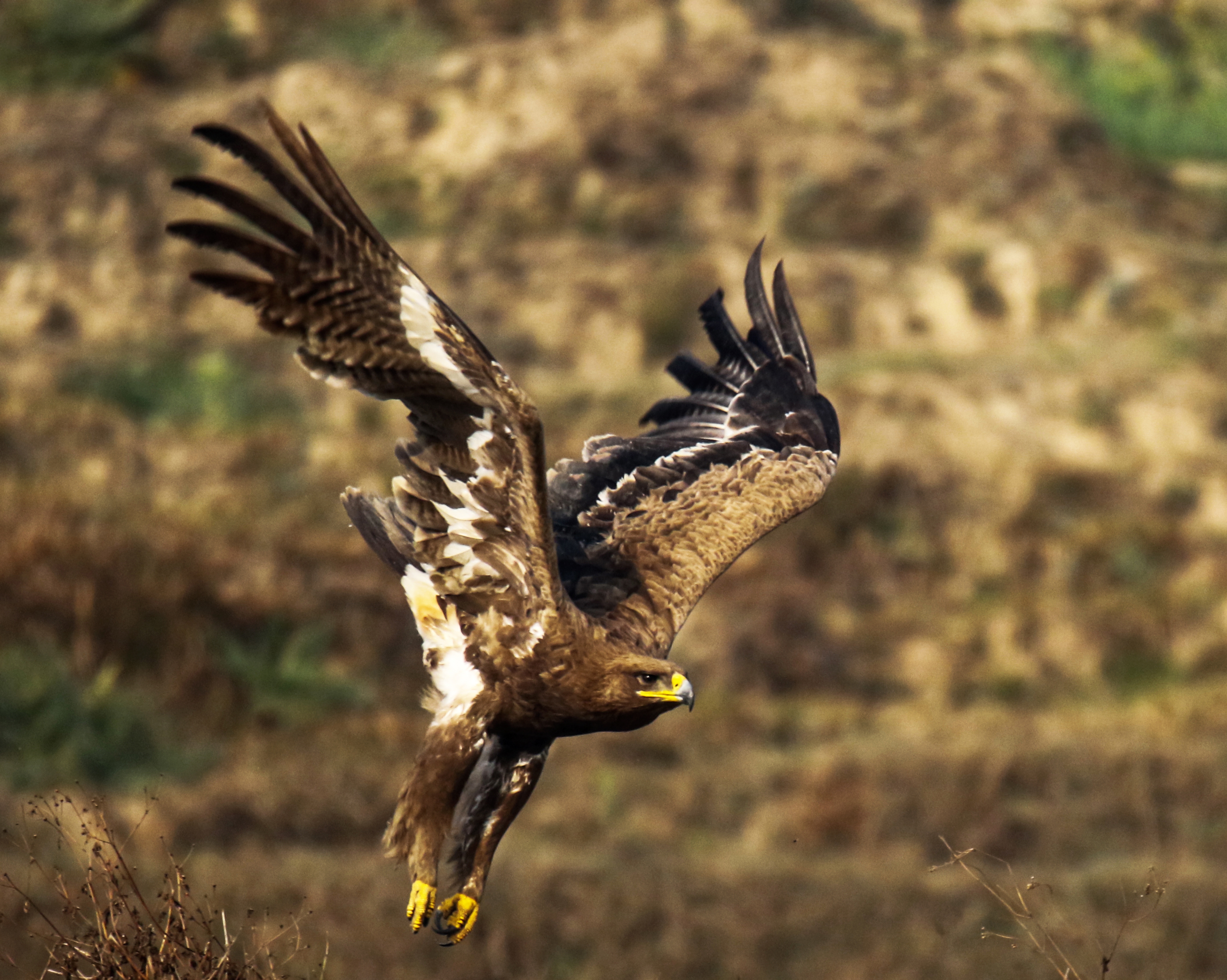 The steppe eagle (Aquila nipalensis), young bird at chovar area Nepal.